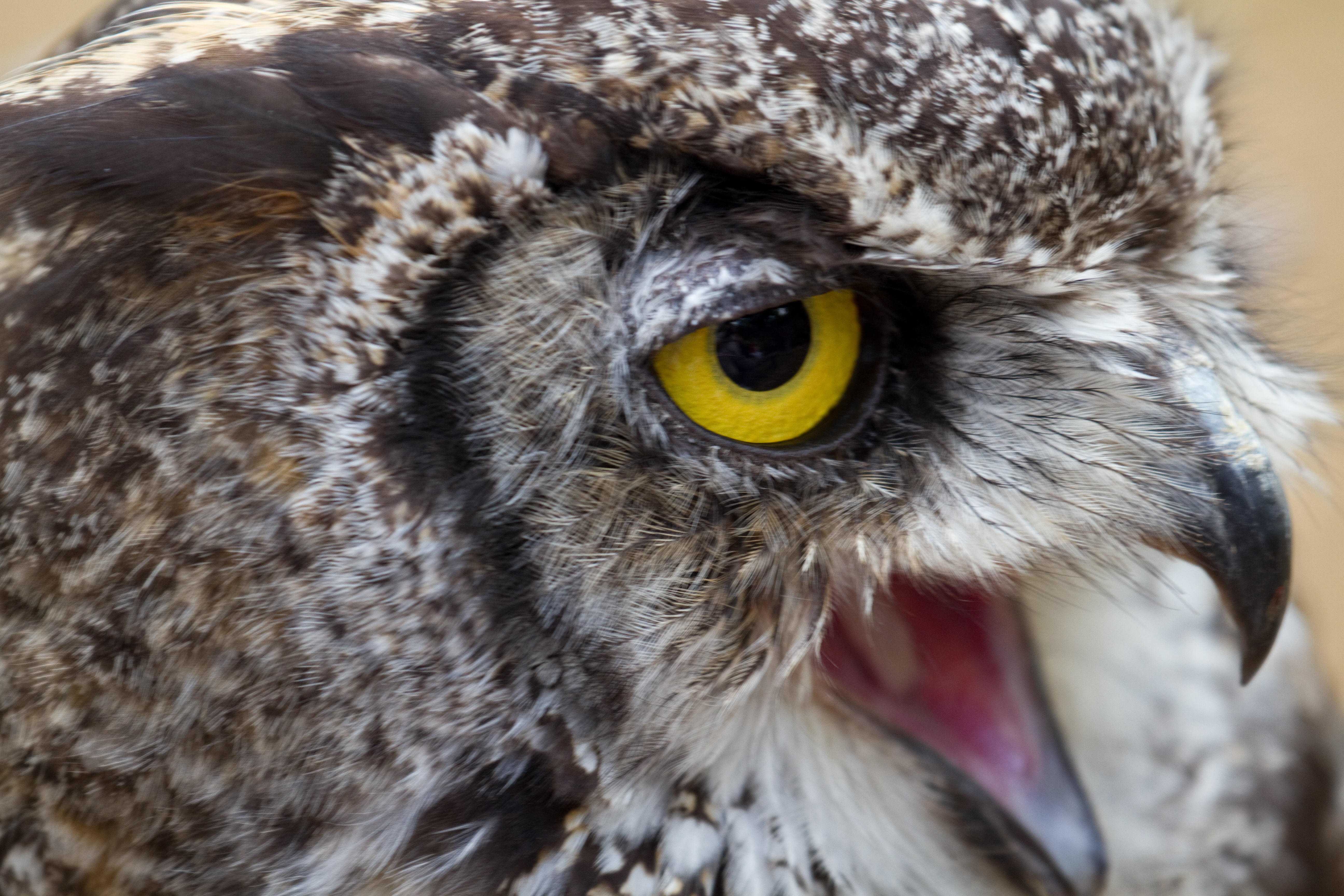 Great Horned Owl 4a